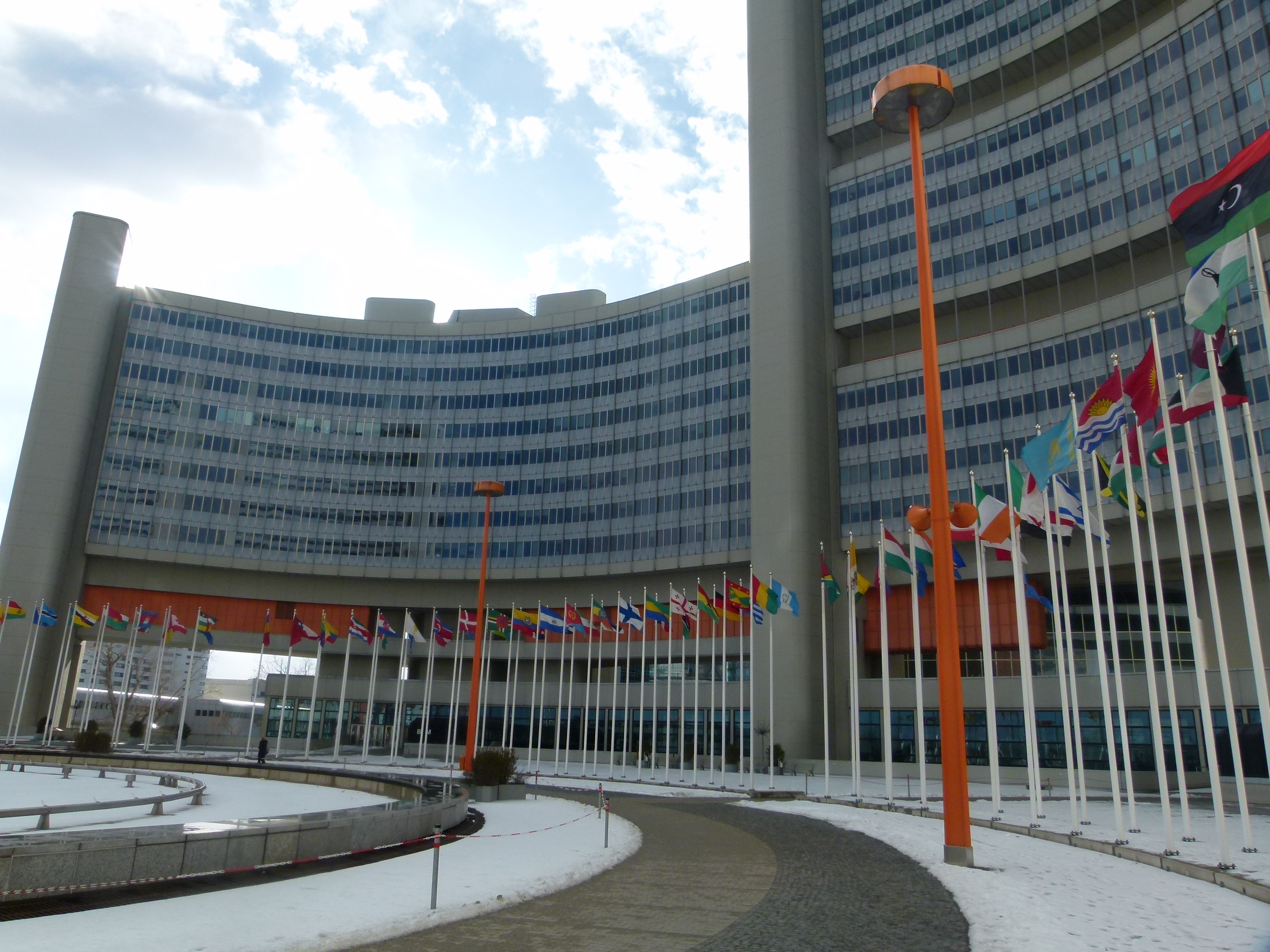 Vienna International Centre - IAEO building